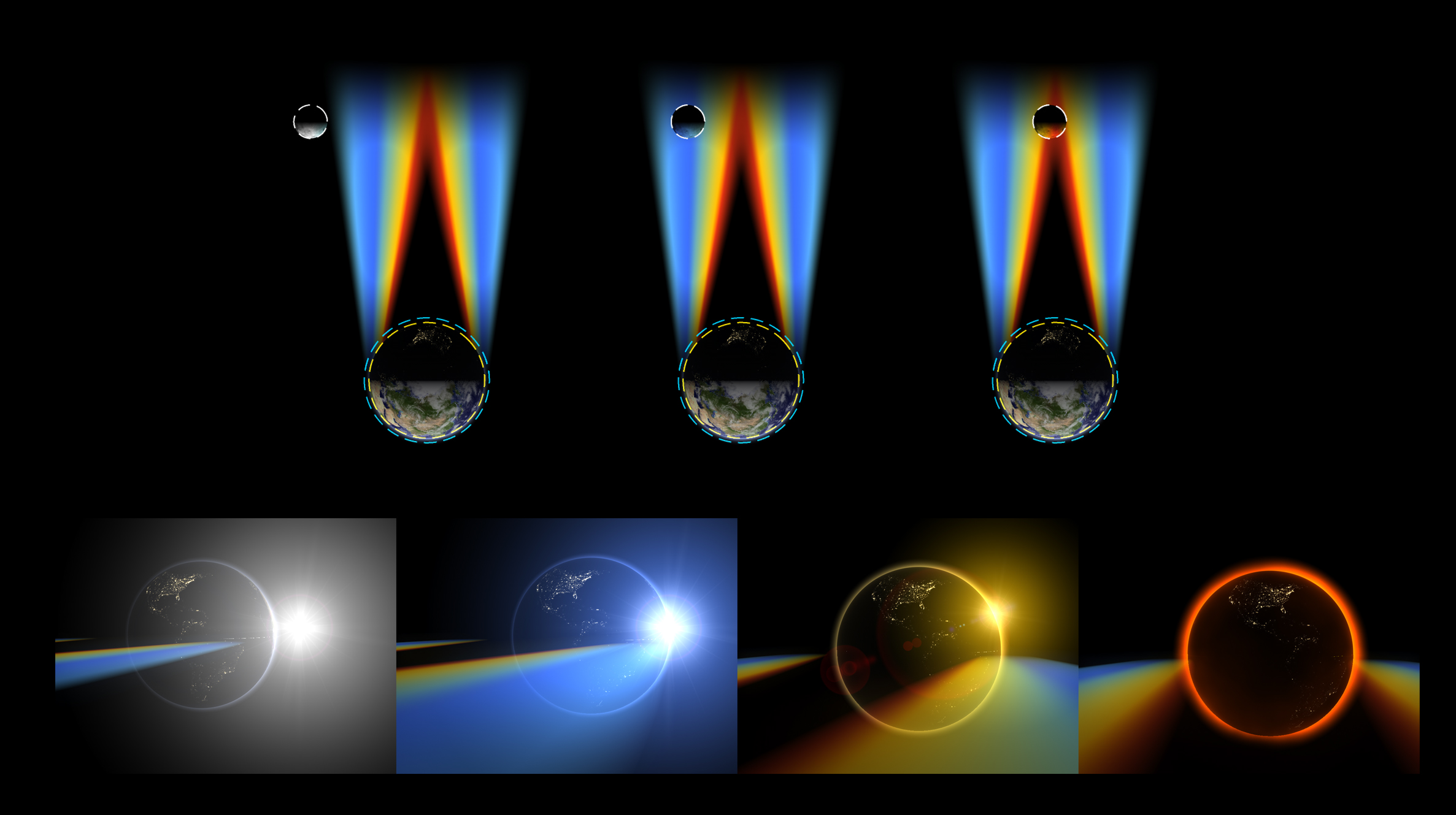 This artist conception depicts the optical effects of a lunar eclipse.